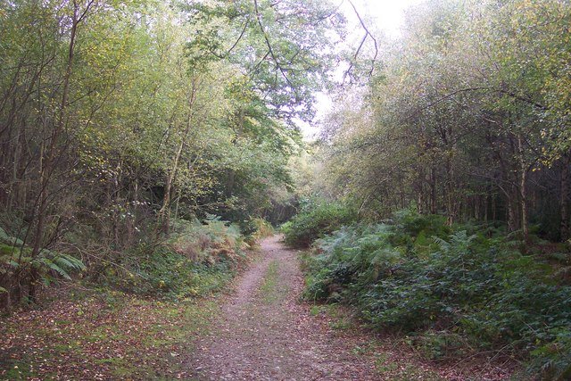 Bridleway in Scords Wood This bridleway leads from Emmetts Lane to Scords Lane.